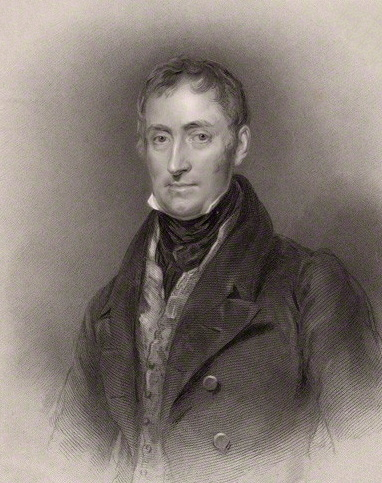 James Stuart-Wortley, 1st Baron Wharncliffe (1776-1845). From Wharncliffe House, Wortley.